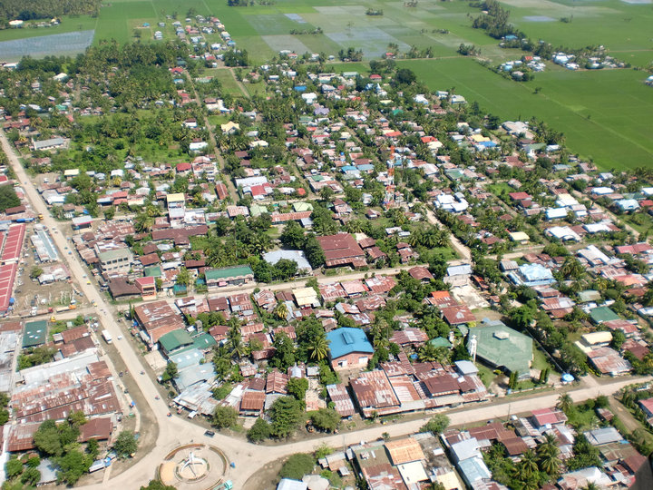 The photo of Lebak aerial shoot. The distinct image of Roundball can be seen.